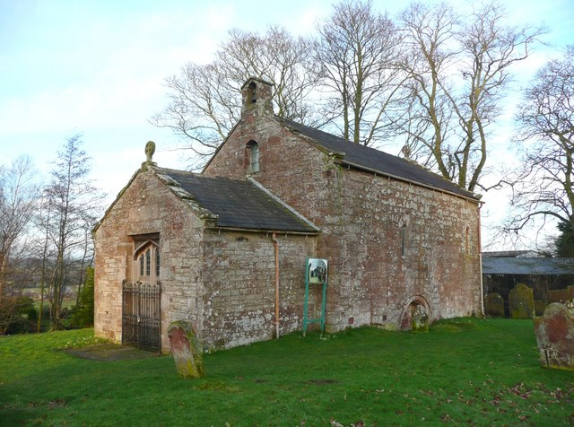 Photograph of the unused church known as Brampton Old Church near Brampton, Cumbria, England, seen from the southwest